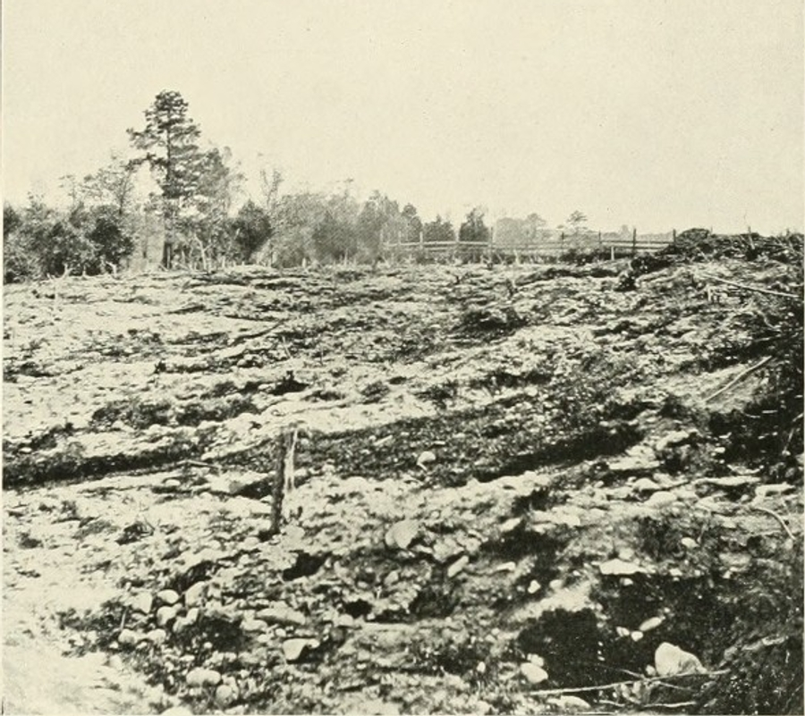 The Battle of Cold Harbor took place here on June 3, 1864.